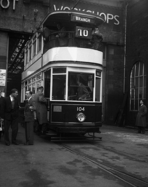 Bradford: Car No 104 at Thornbury Depot